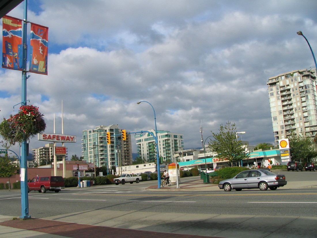 This image was created by me, Flying Penguin of Pacific Spirit Photography of Burnaby, BC, Canada